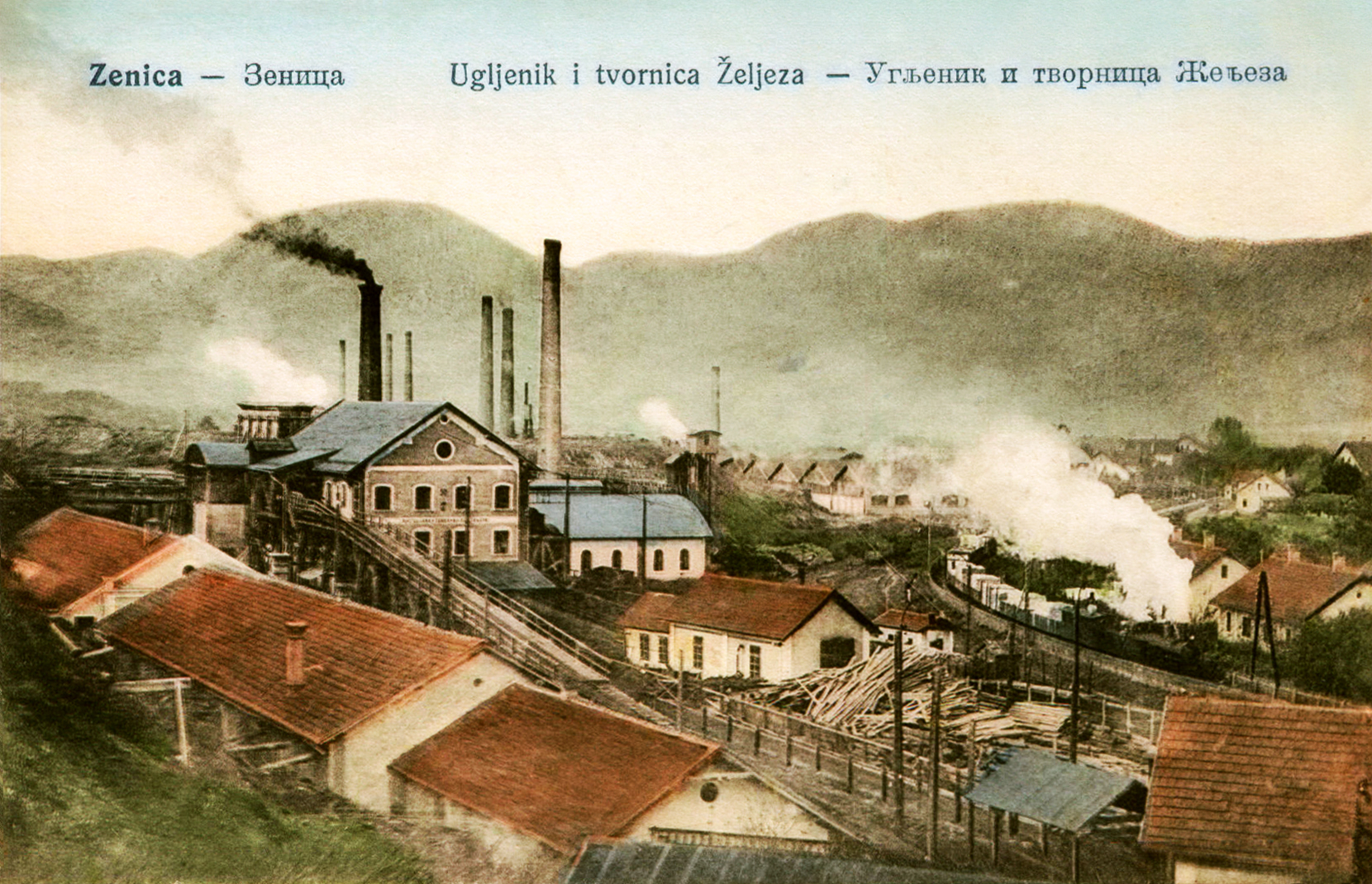 Steel mill in Zenica